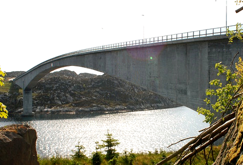 The Stolma Bridge over the Stolmen sound in Austevoll municipality (Hordaland) connects Stolmen and Selbjørn islands